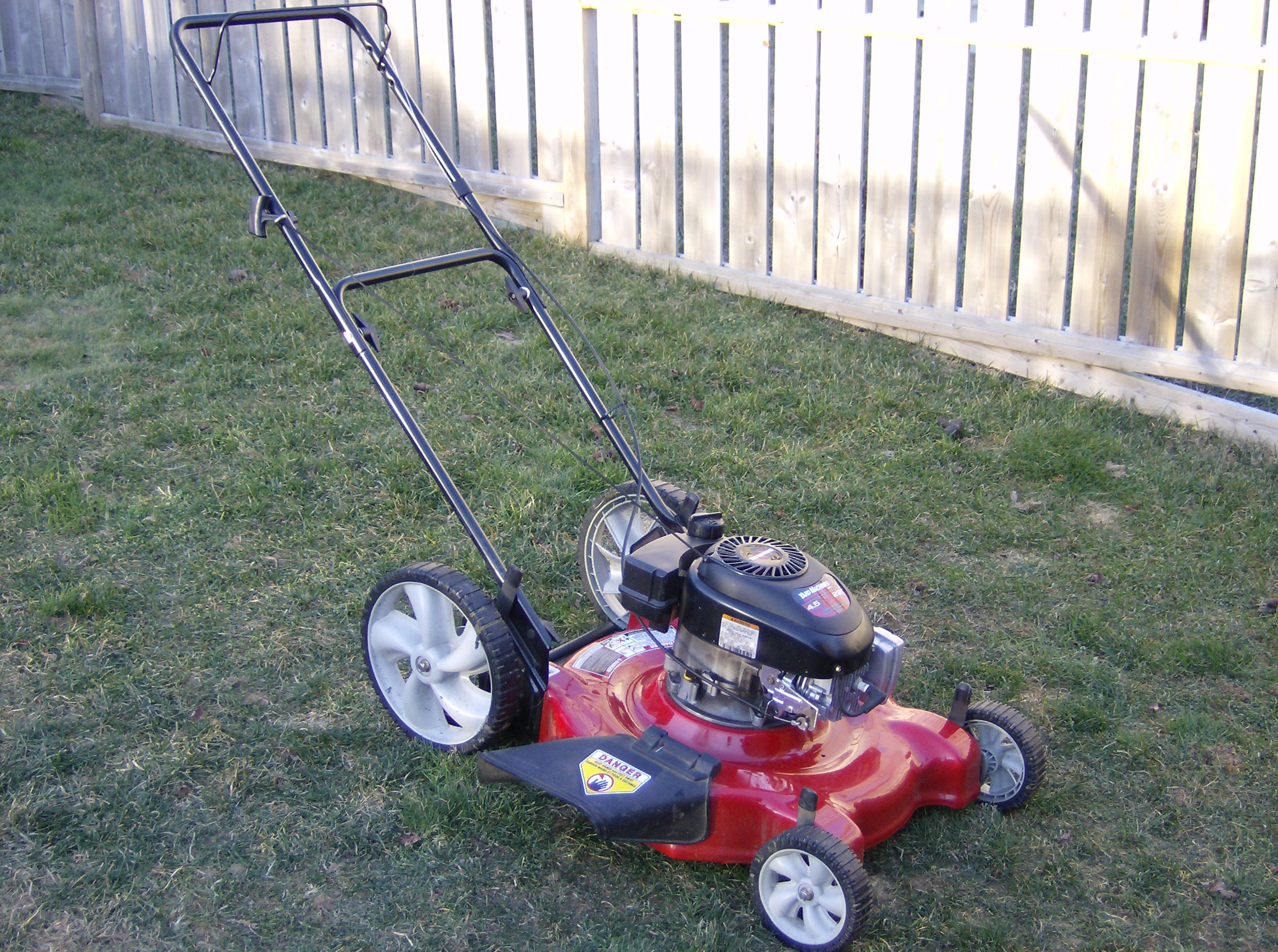 MTD Yard Machines Lawn Mower 4.5HP Tecumseh Engine / 22" Cutting Deck / Adjustable Wheel Height